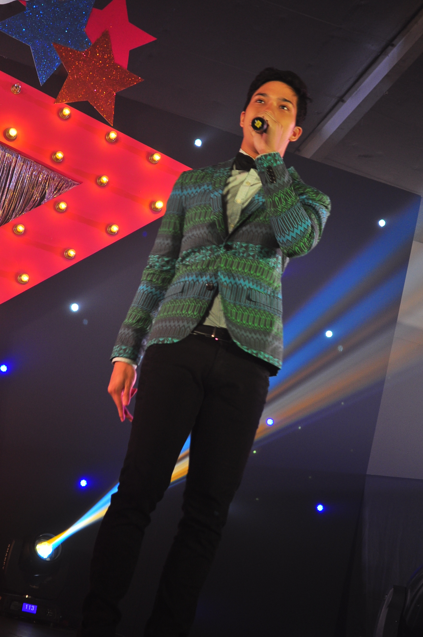 Philippine actor and singer Elmo Magalona at the 2013 Candy Style Awards.